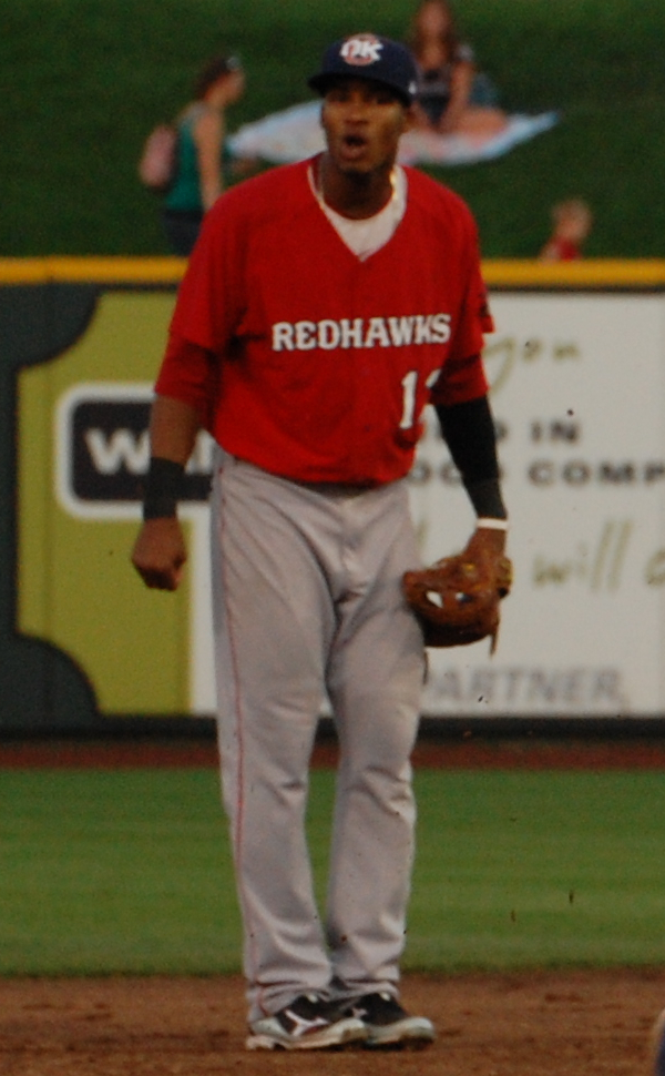 Jimmy Paredes